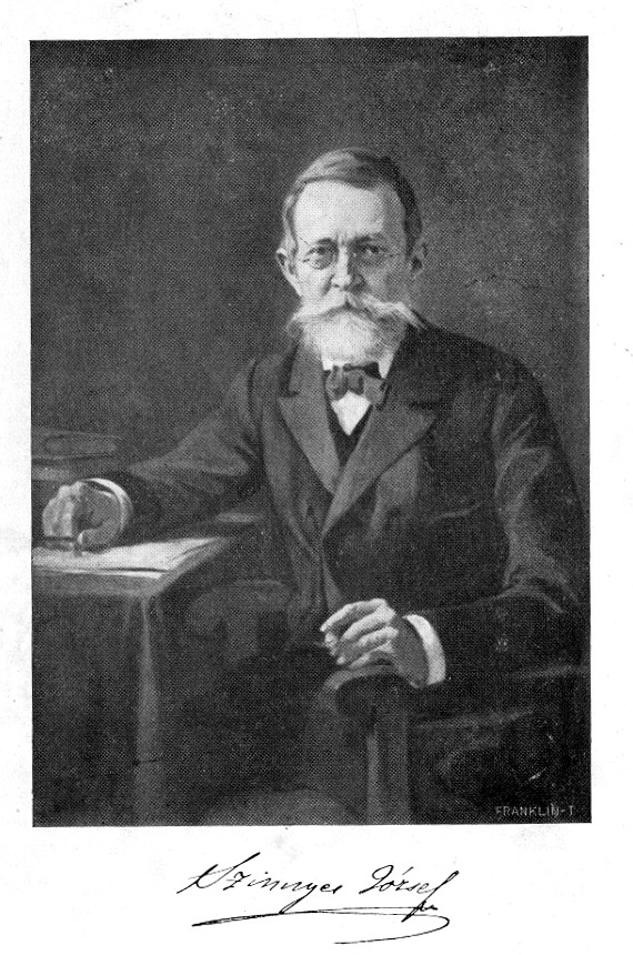 Photo of József Szinnyei